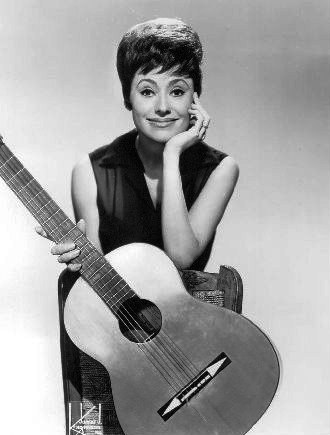 Photo of Caterina Valente from the television program Perry Como's Kraft Music Hall.